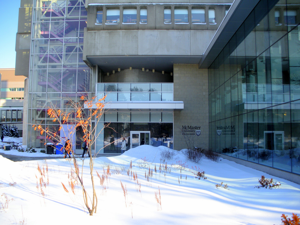 An exterior view of the McMaster University Health Sciences Library in winter.